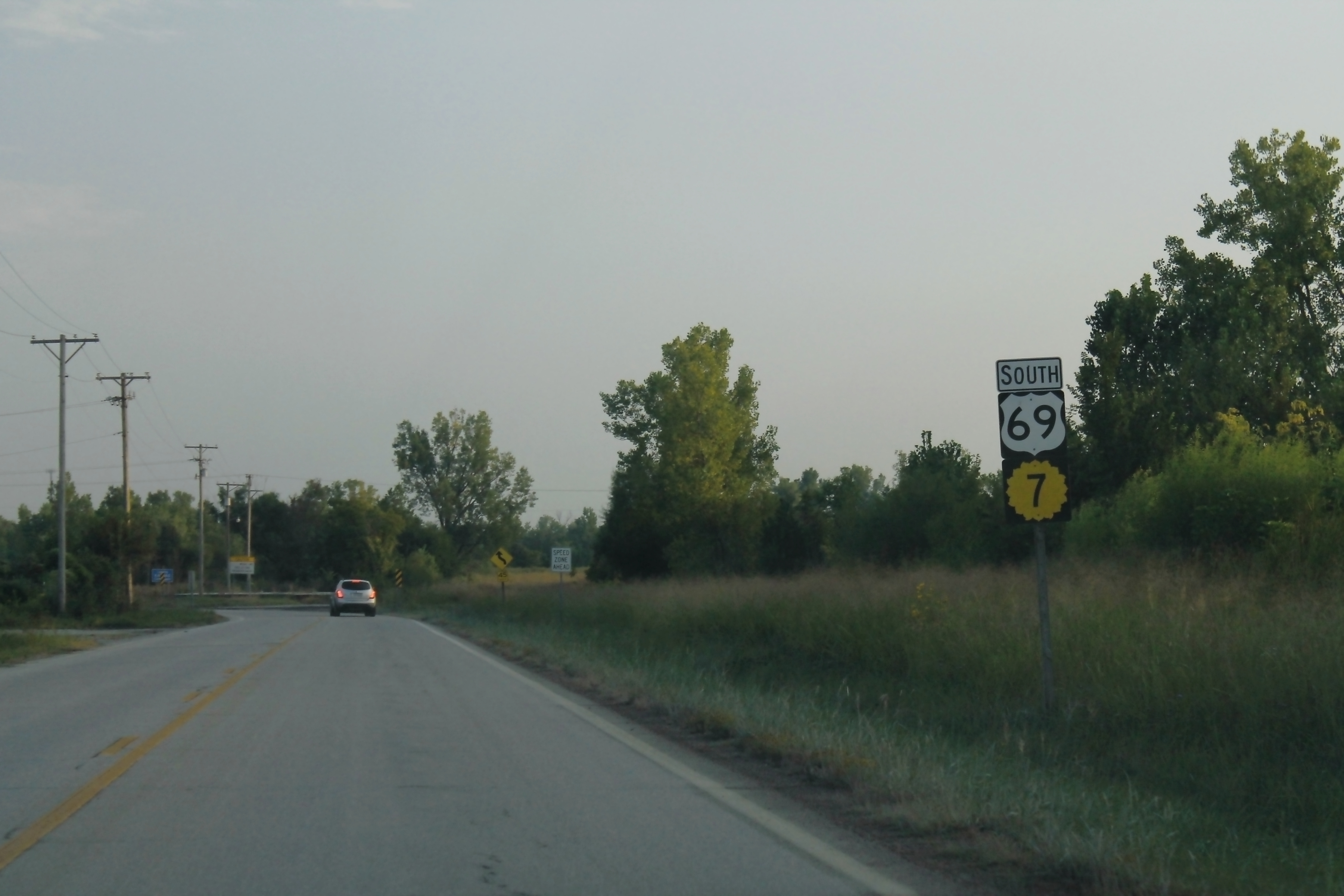 US69 K-7 South Signs near OK Border